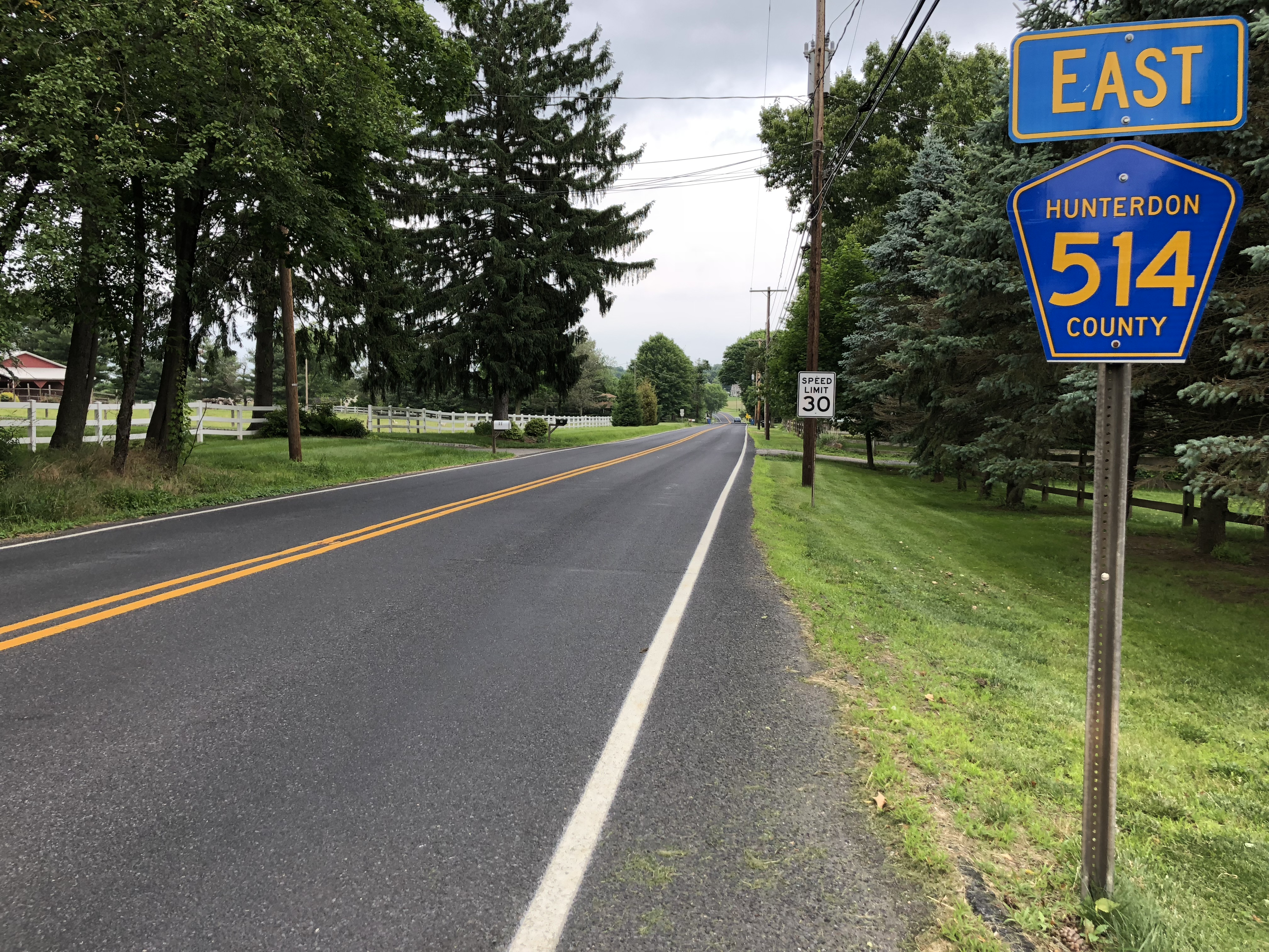 View east along Hunterdon County Route 514 (Amwell Road) at Hunterdon County Route 609 (Manners Road) on the border of East Amwell Township and Raritan Township in Hunterdon County, New Jersey